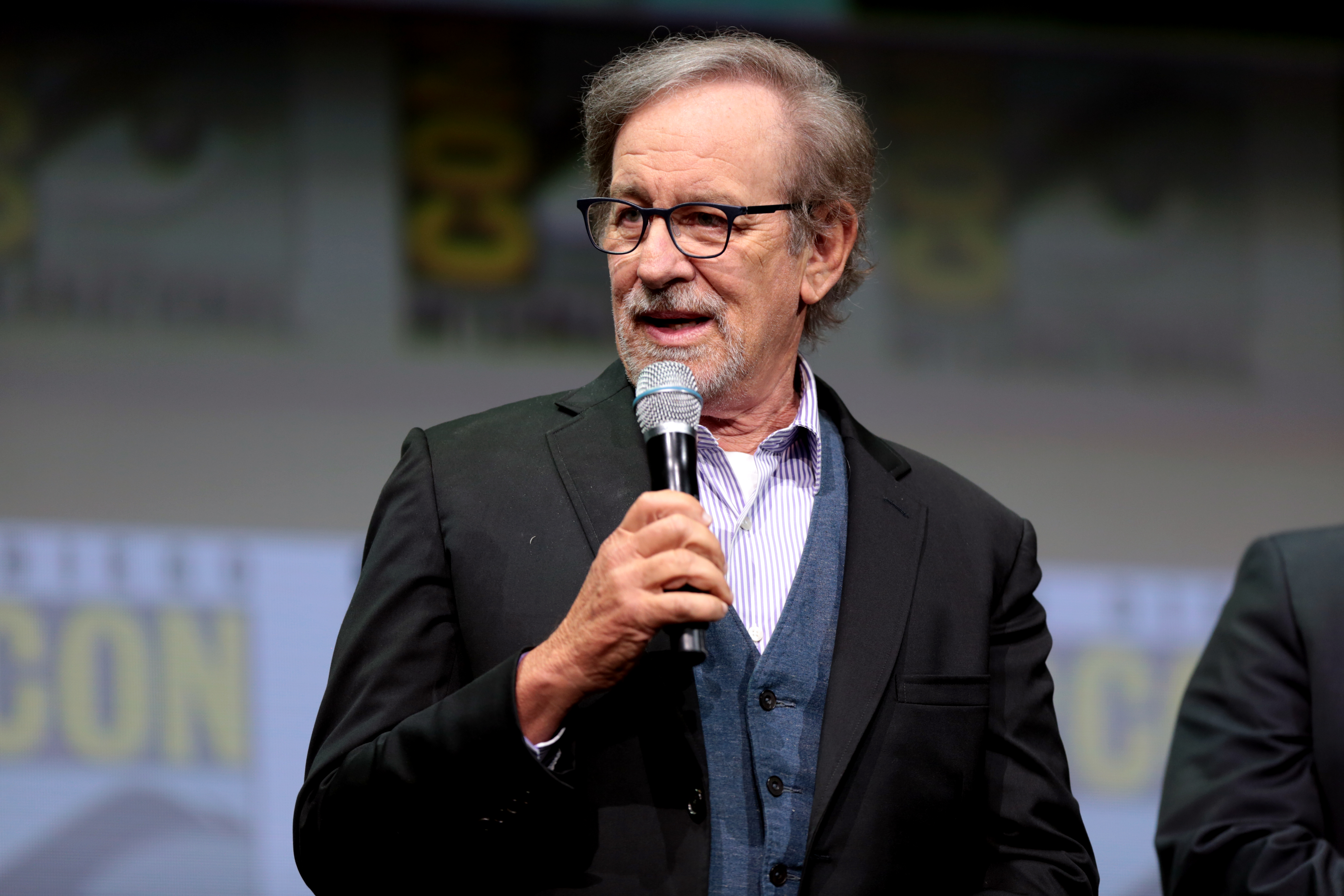 Steven Spielberg speaking at the 2017 San Diego Comic Con International, for "Ready Player One", at the San Diego Convention Center in San Diego, California.